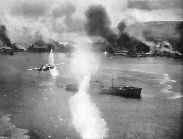 Airraid at Rabaul Harbor